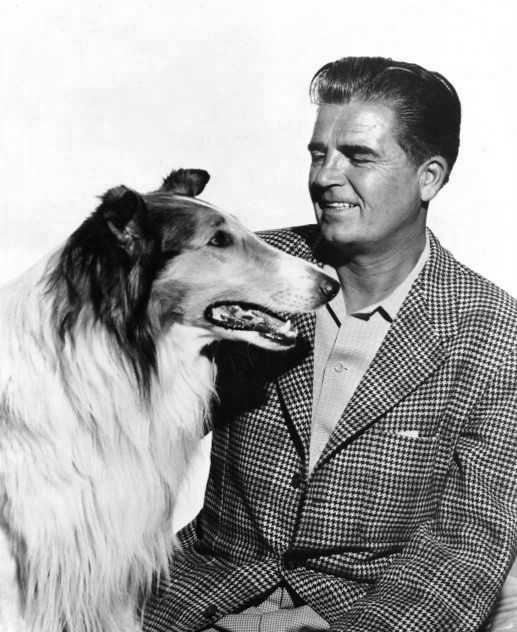 Photo of Lassie and owner/trainer Rudd Weatherwax.